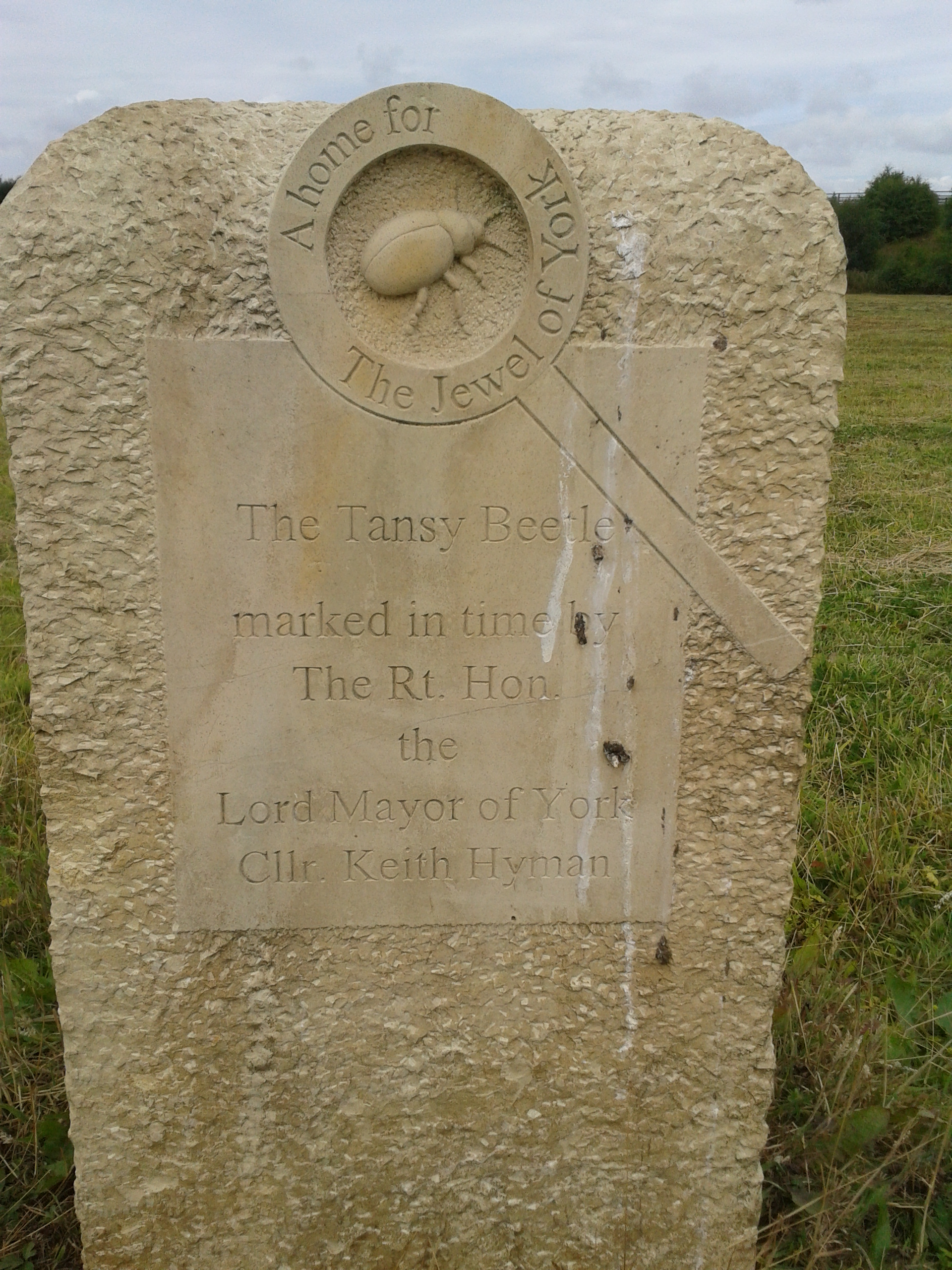 Jubilee celebration stone. Side denoting the conservation of the Tansy Beetle on Fulford Ings